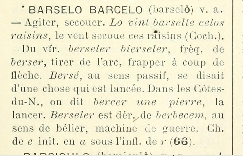 Etymology and definition of "BARSELO / BARCELO" a word and common family name in Spain and France (and in their former colonies around the world) actually coming from Old French verb "berseler", "bierseler" meaning "to shake". According to the Lyon Area Old Dialect Dictionary written by Clair Tisseur and published in Lyon in 1887.